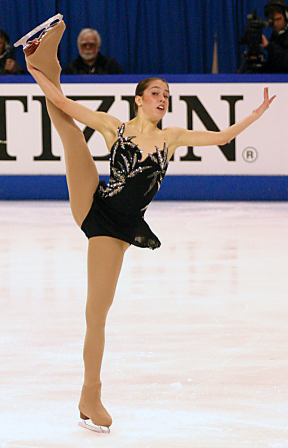 Alissa Czisny performs a Y-spin at the 2005 World Junior Championships in Kitchener, Ontario, Canada.